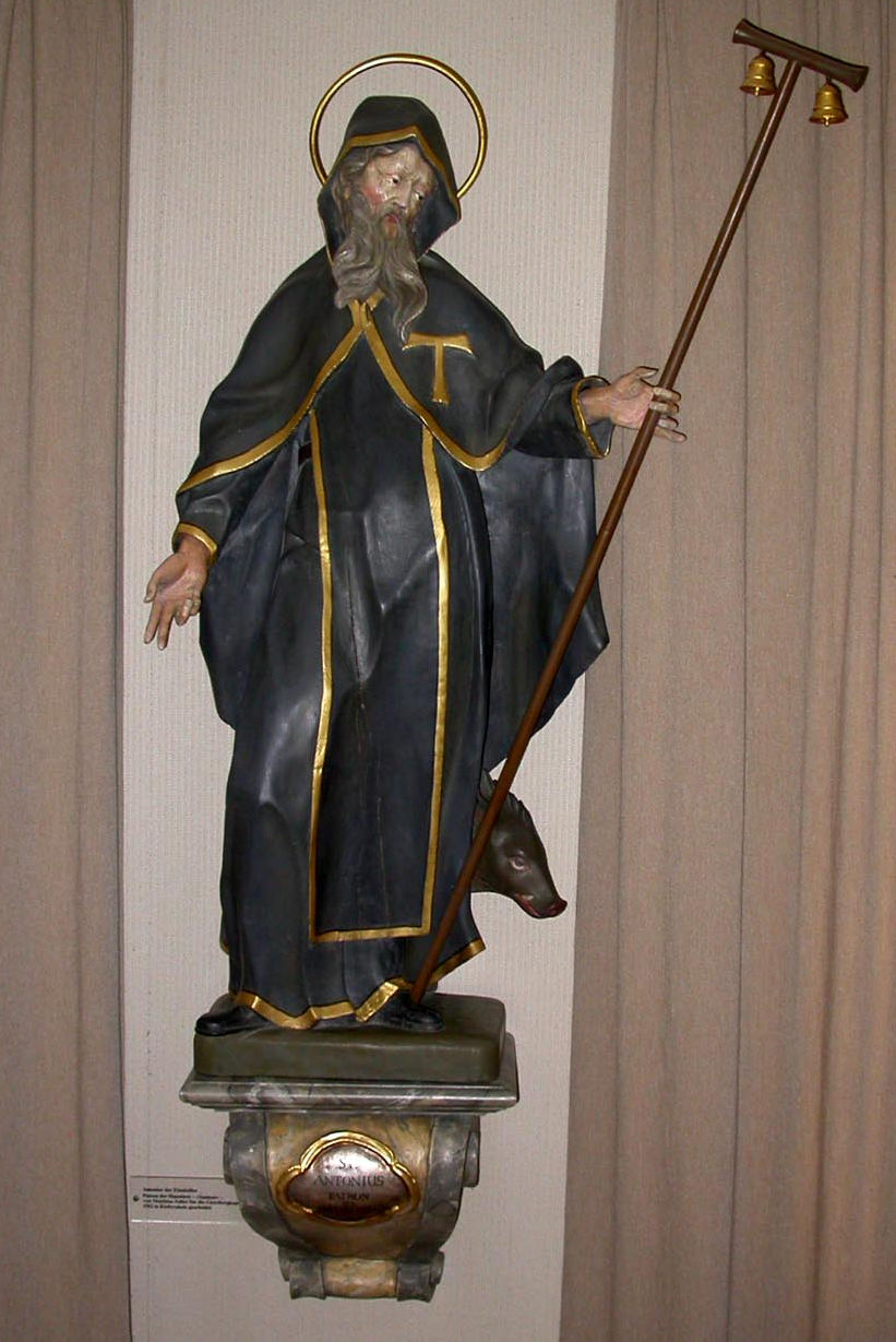 St. Anthony of Egypt. Sculpture by Matthias Faller in Gemeindehaus of the parish of St. Gallus Kirchzarten, Germany